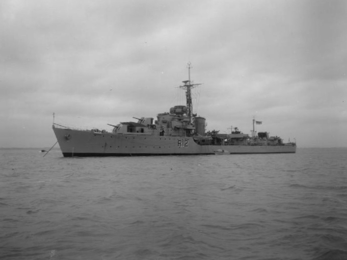 Photograph of British C class destroyer HMS Contest (R12), on the River Solent.